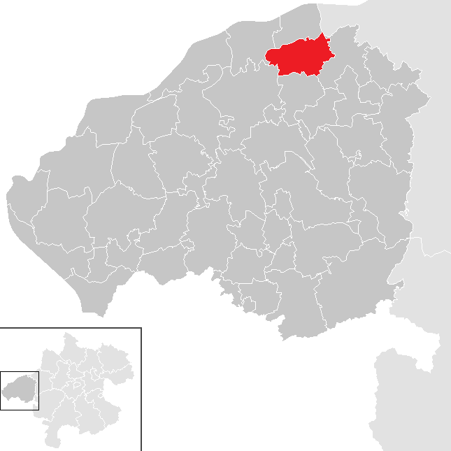 district Braunau am Inn